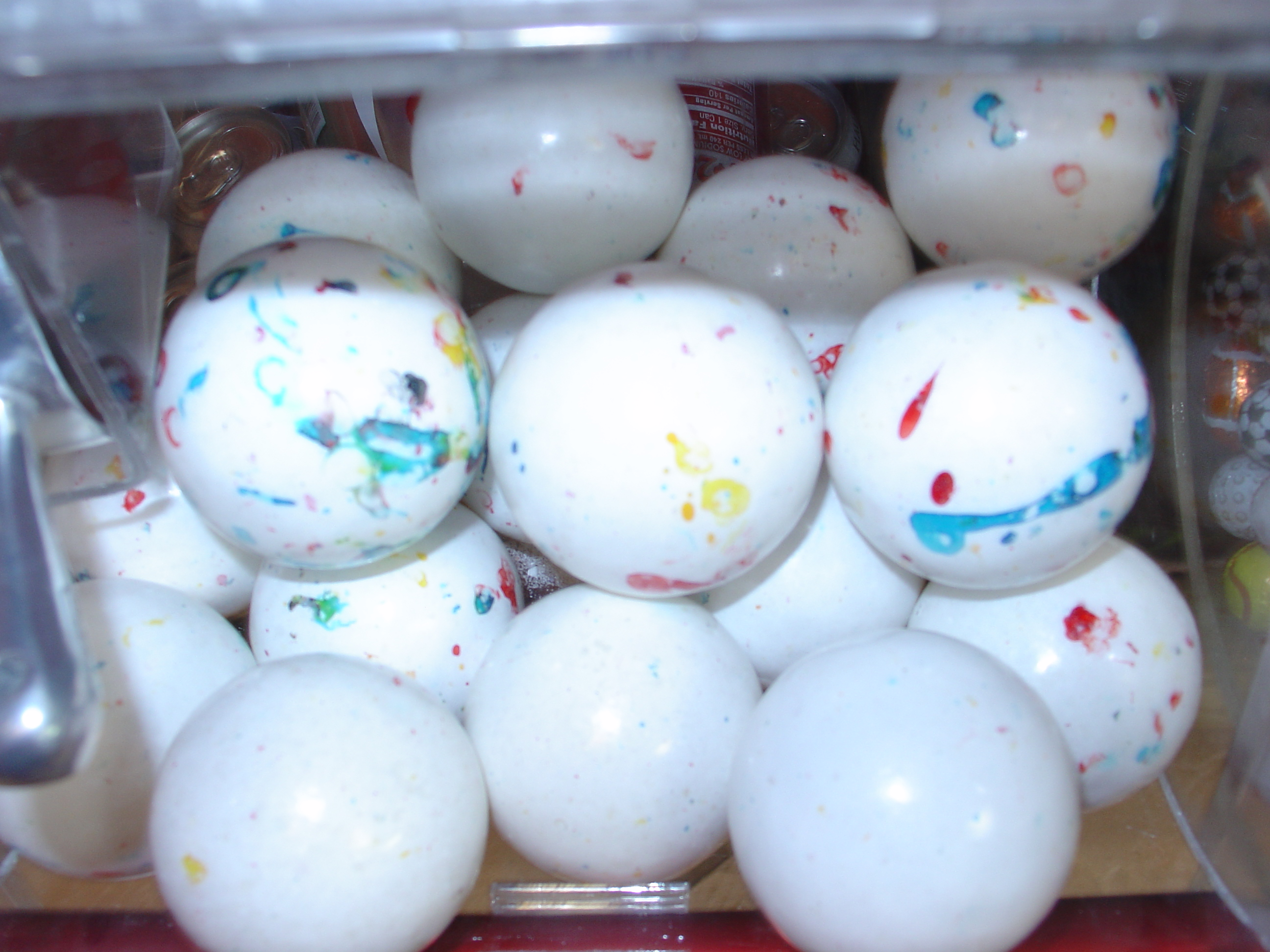 Big jawbreakers, photo by ChildofMidnight 2009 please attricute